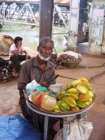 Star fruit hawker in Sadarghat, Dhaka in 2009